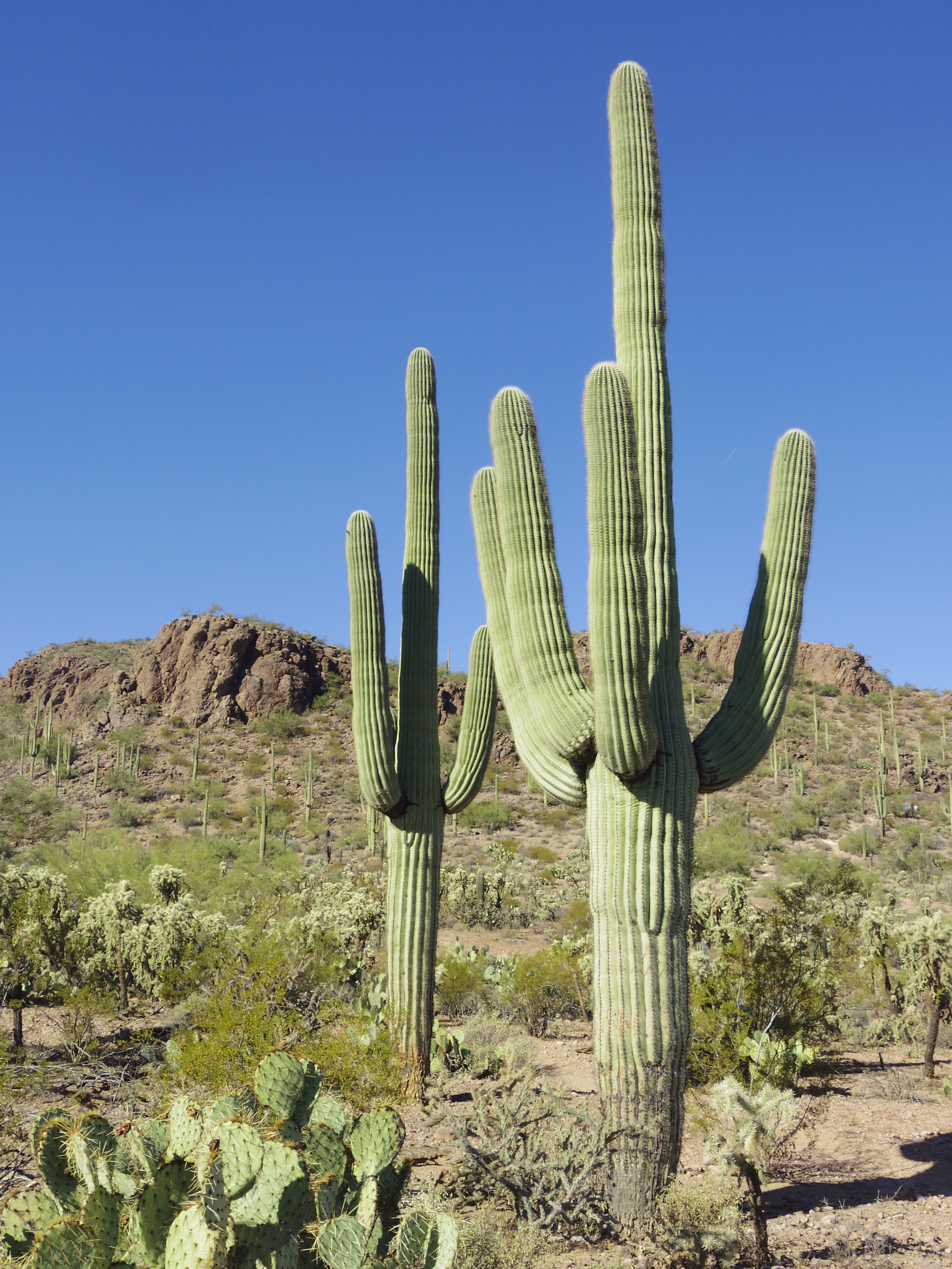 West Saguaro National Park around Sombrero Mountain near Tucson, Arizona in November 2016.